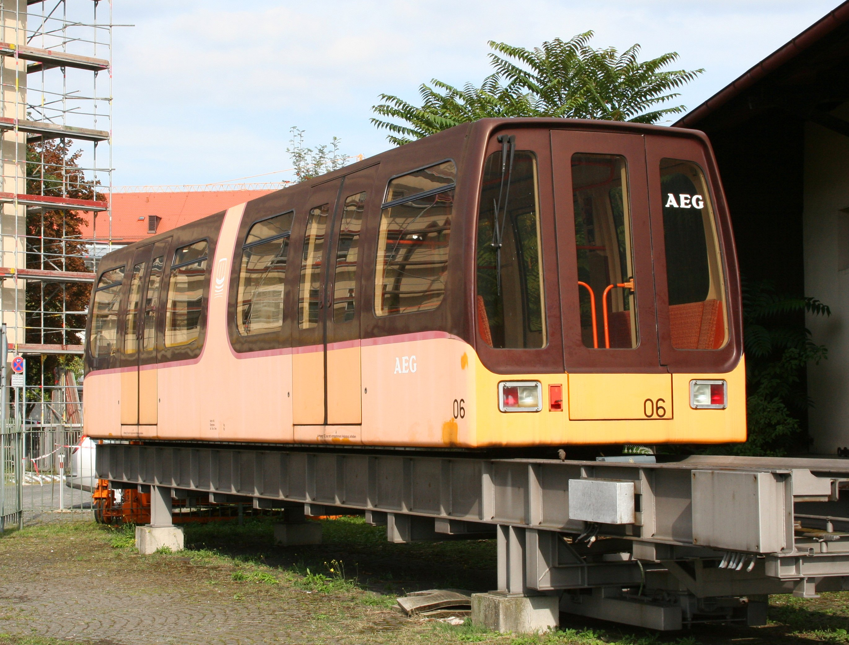 A car of the Berlin M-Bahn at the Museum of Deutsche Bahn (Nürnberg), Germany